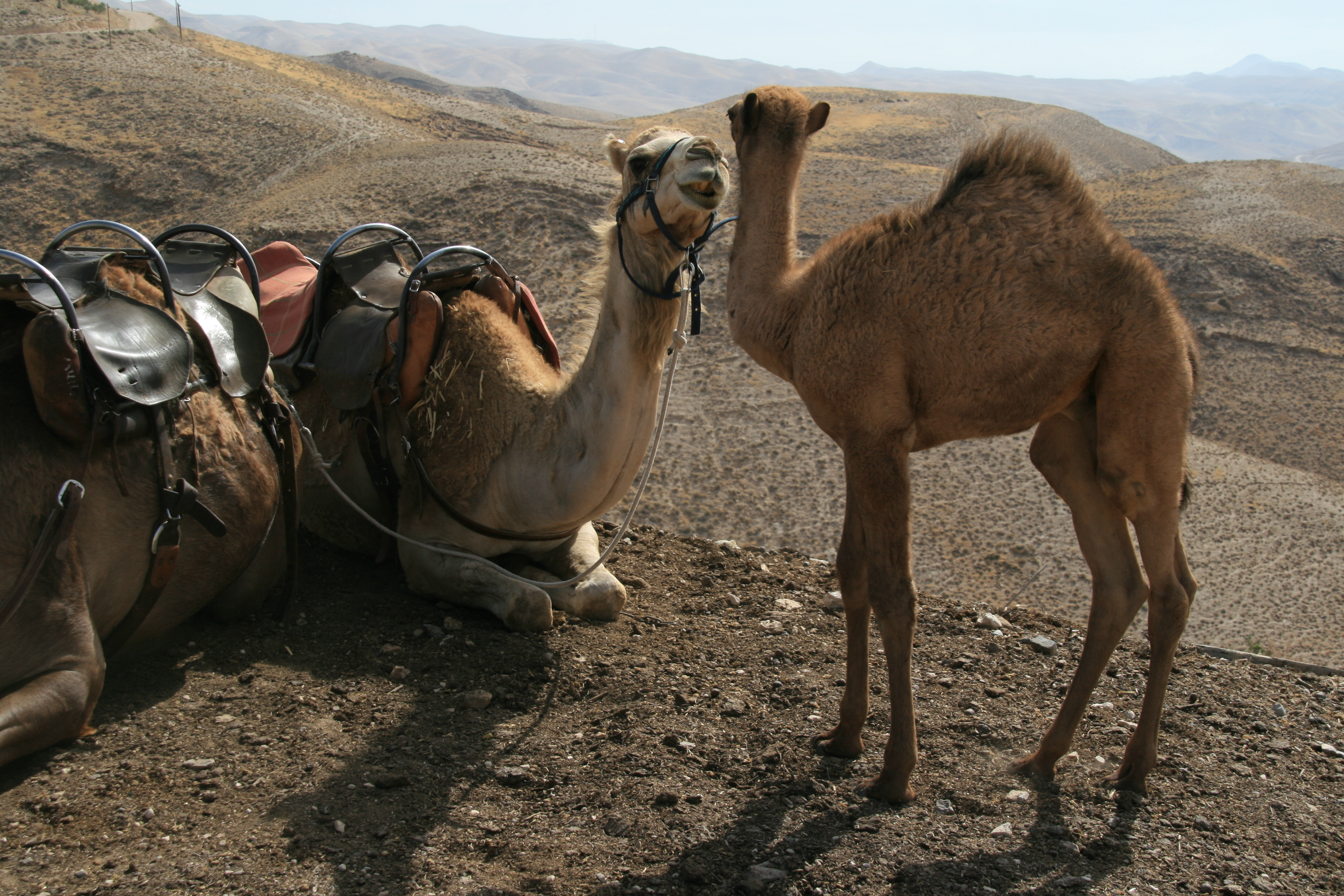 camels, Israel